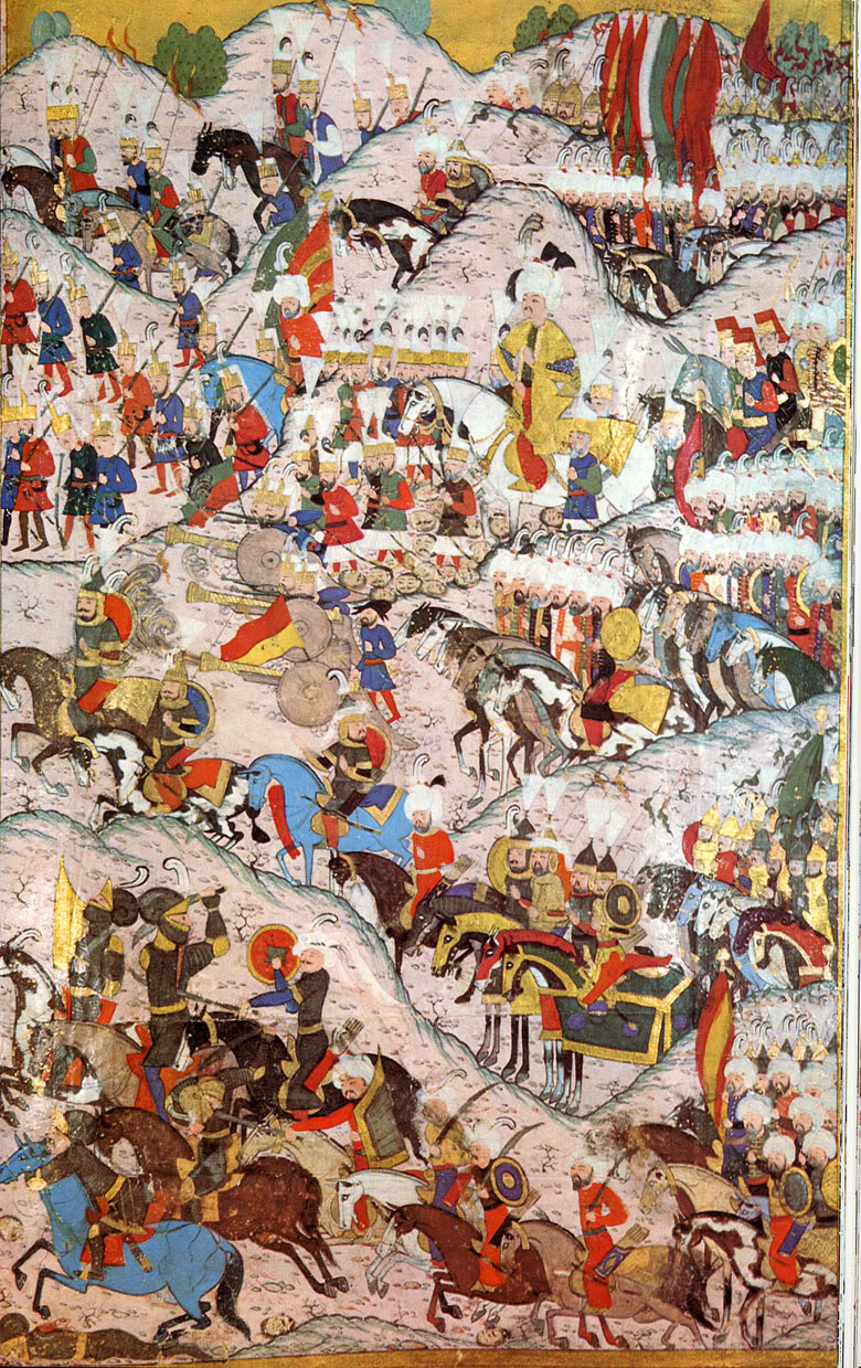 Illustrations of Ottoman soldiers from the Hünernâme of 1588 by Lokman